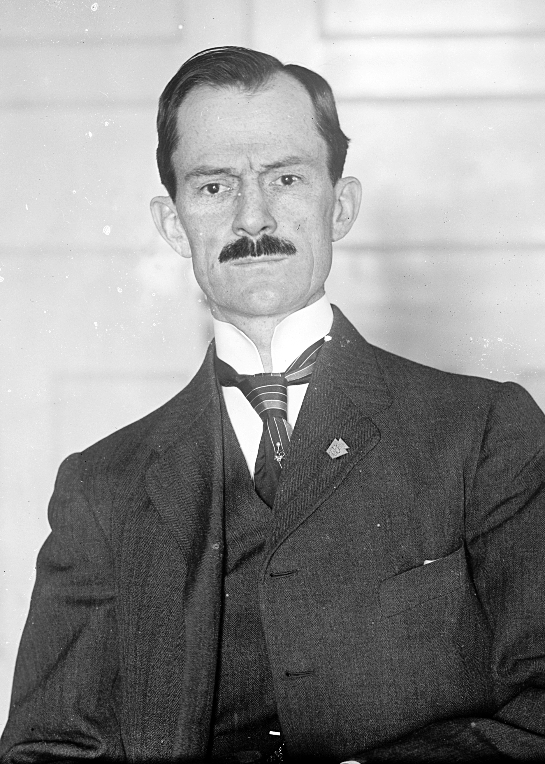 J. Hampton Moore, US Representative from Pennsylvania and Mayor of Philadelphia